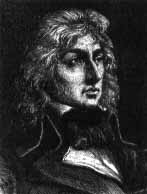 Jean-Baptiste Robert Lindet